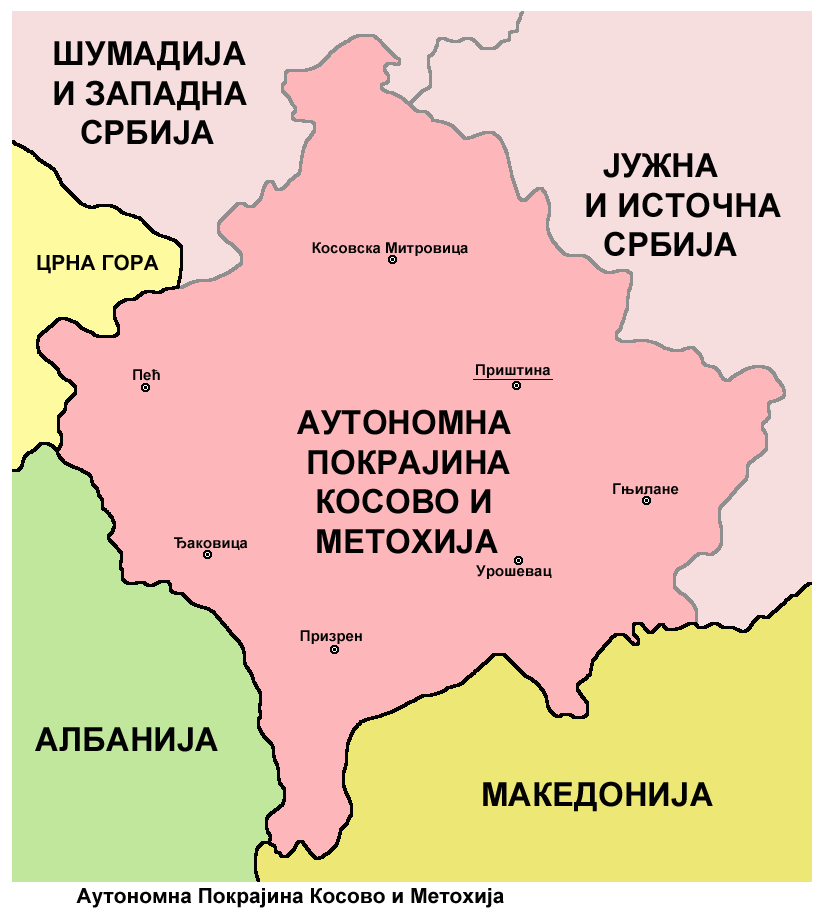 Map of the Autonomous Province of Kosovo and Metohija.